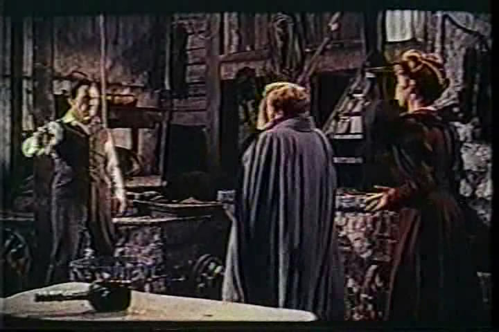 Screenshot of Peter Cushing, David Peel and Yvonne Monlaur from the trailer for the film The Brides Of Dracula